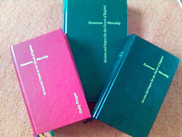 Collection of three books in the Church of England's Common Worship liturgy, including (left to right) Daily Prayer (red), Pastoral Services (green) and Main Volume (black).